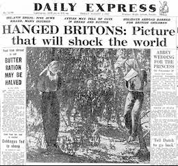 Jewish terrorist attacks on British servicemen,and civilians in British occupied Palestine in the late 1940s.